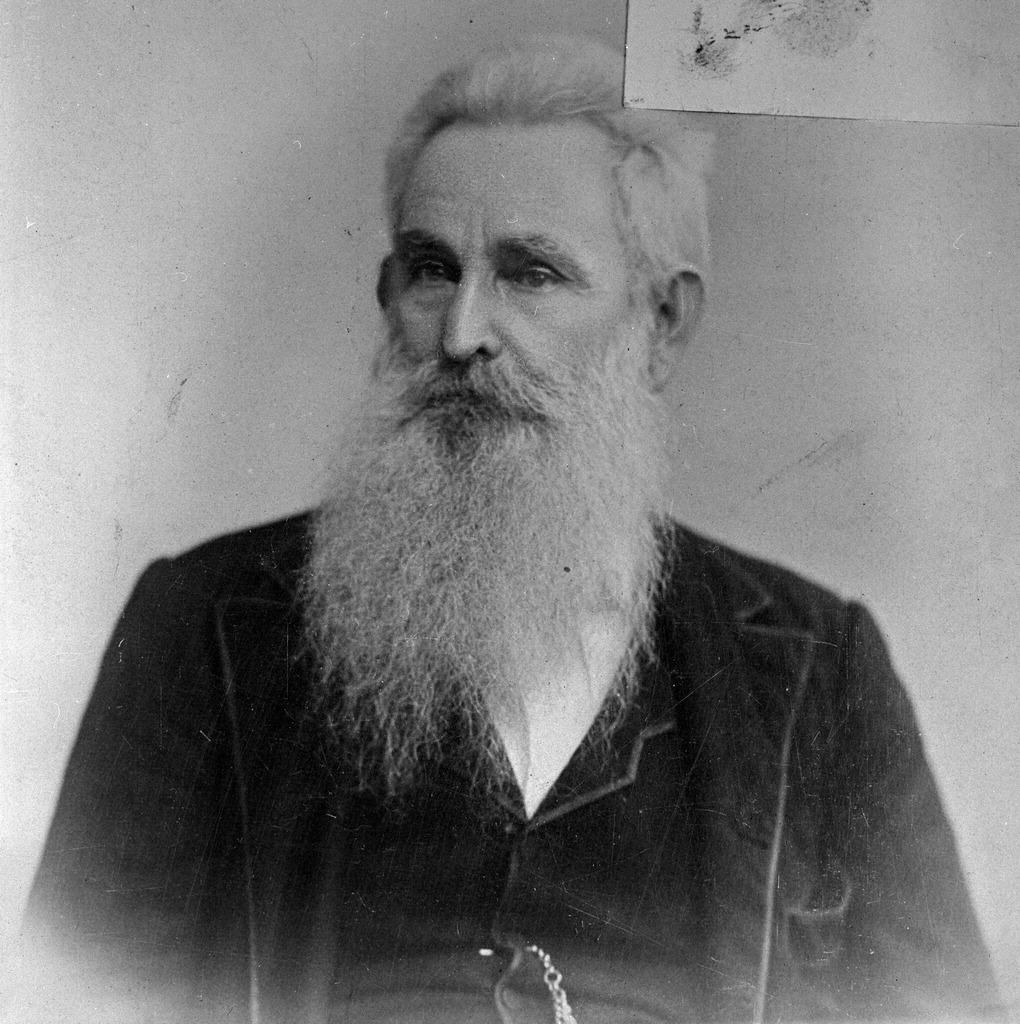 Bethel Coopwood was a lawyer and came to San Bernardino in 1857. San Bernardino Public Library